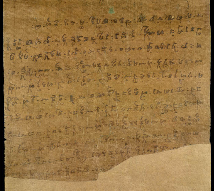 This scroll contains a Chinese-Khotanese phrasebook containing sentences such as 'Where are you going?', 'Do you know Chinese?', 'Bring me vegetables'. The Chinese words are written into Brahmi script so a Khotanese would have an idea of how to pronounce the sounds of Chinese. A translation in Khotanese then follows. 10th century, Dunhuang